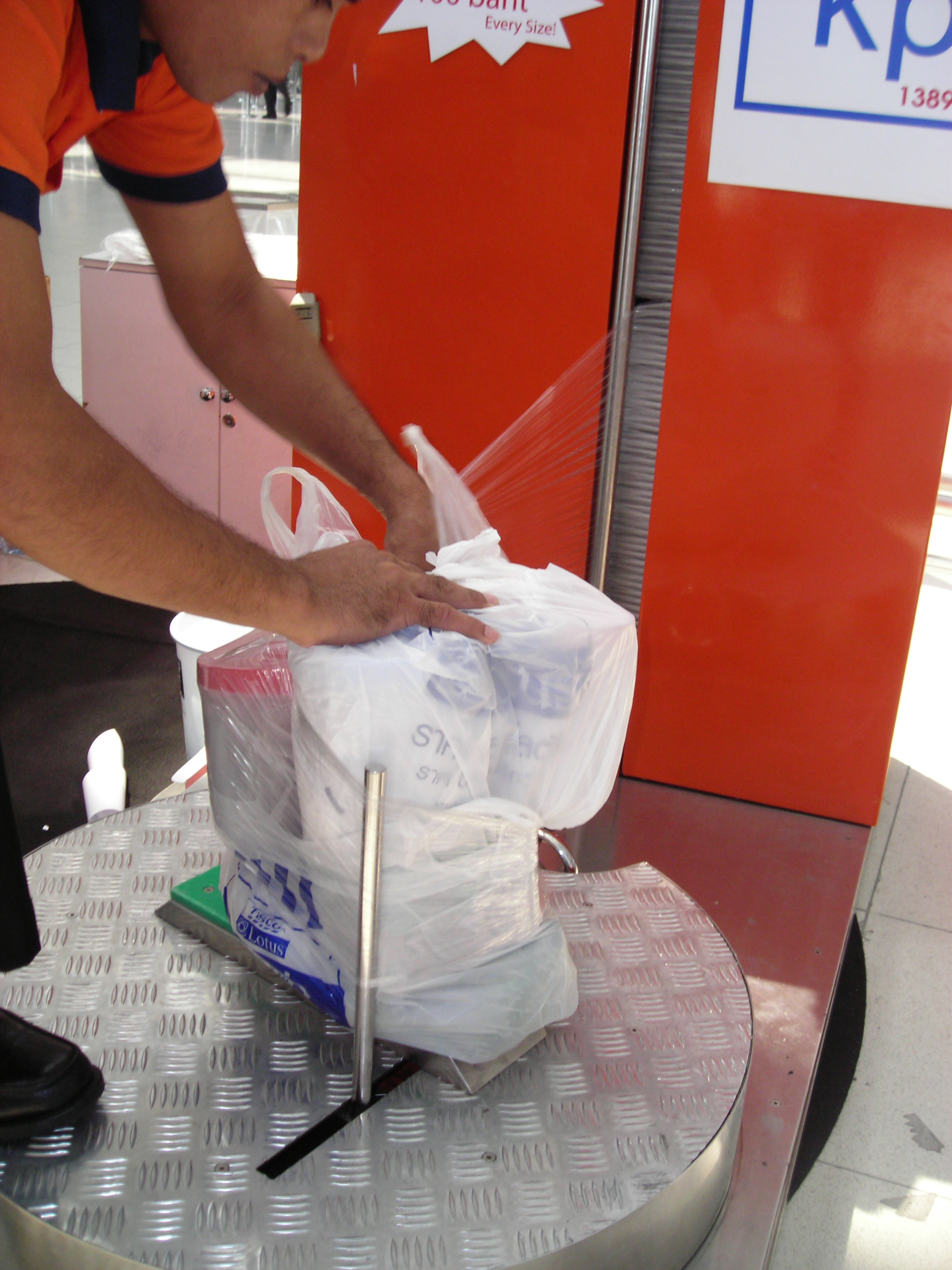 Stretch wrapping foil for sealing board luggage of departing passengers to prevent it against damage, undesired smuggling and stealing, and bursting open